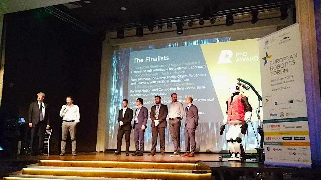 Georges Giralt PhD Award Finalist 2019